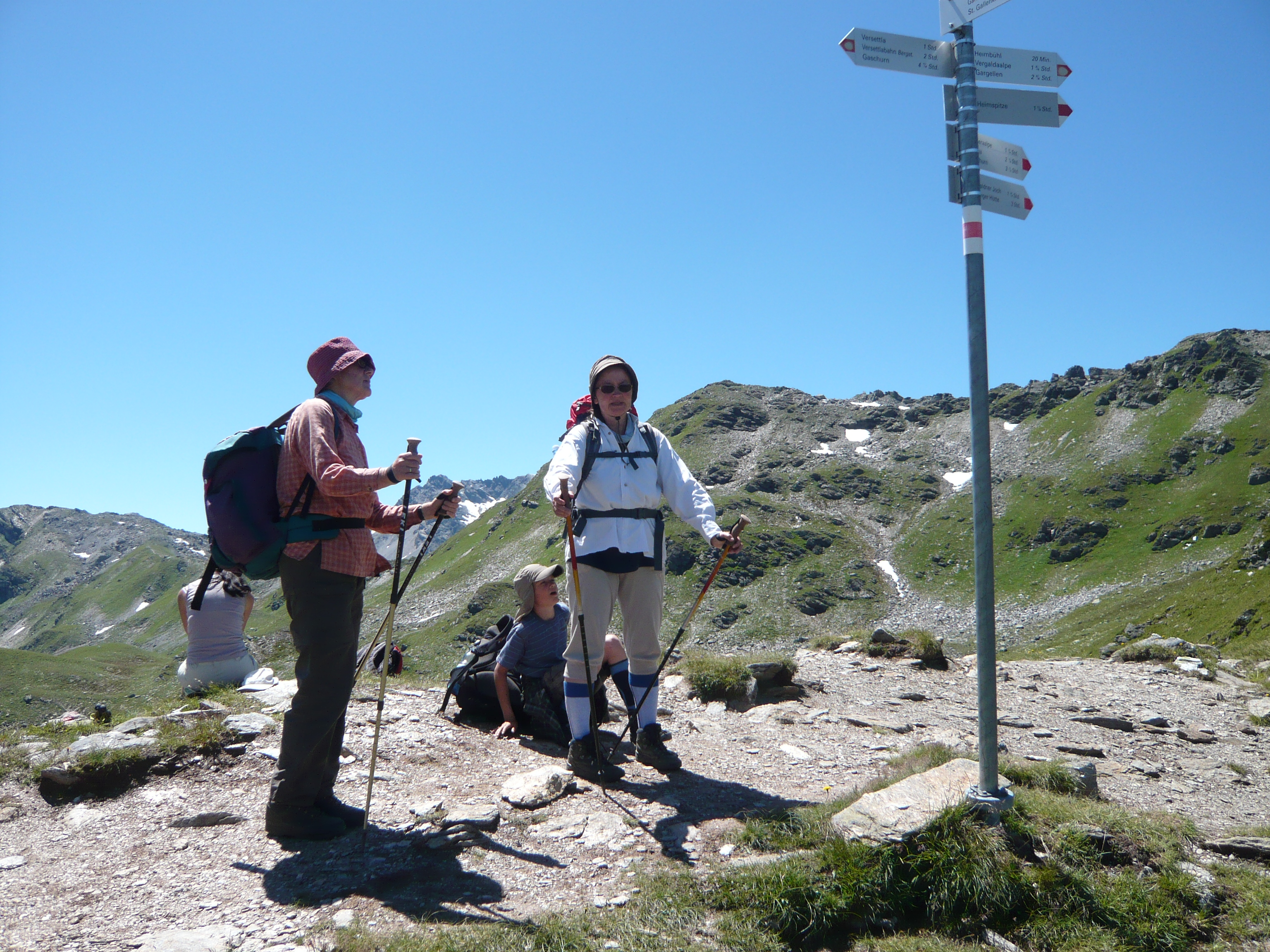 matschuner joch near gaschurn, vorarlberg, AT